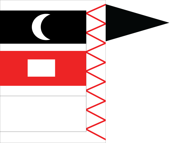 Based on David Nicolle "Armies of the Muslim Conquest" illustrations by Angus McBride. And Martin Hinds "The Banners and Battle Cries of the Arabs at Siffin" Al-Abhath XXIV